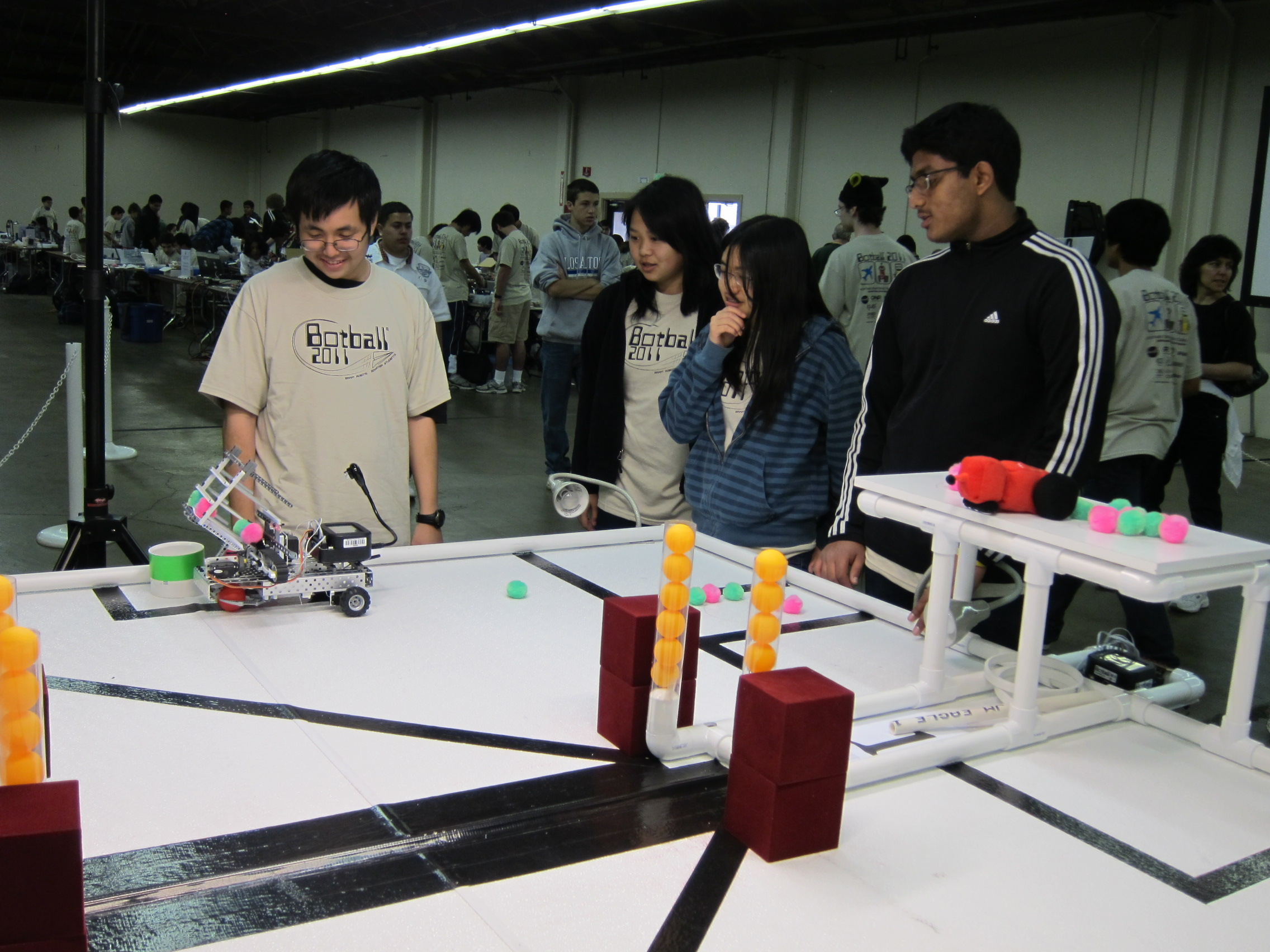 Participants at Northern California regional Botball tournament. All participants were informed that photos could be used for communication purposes.